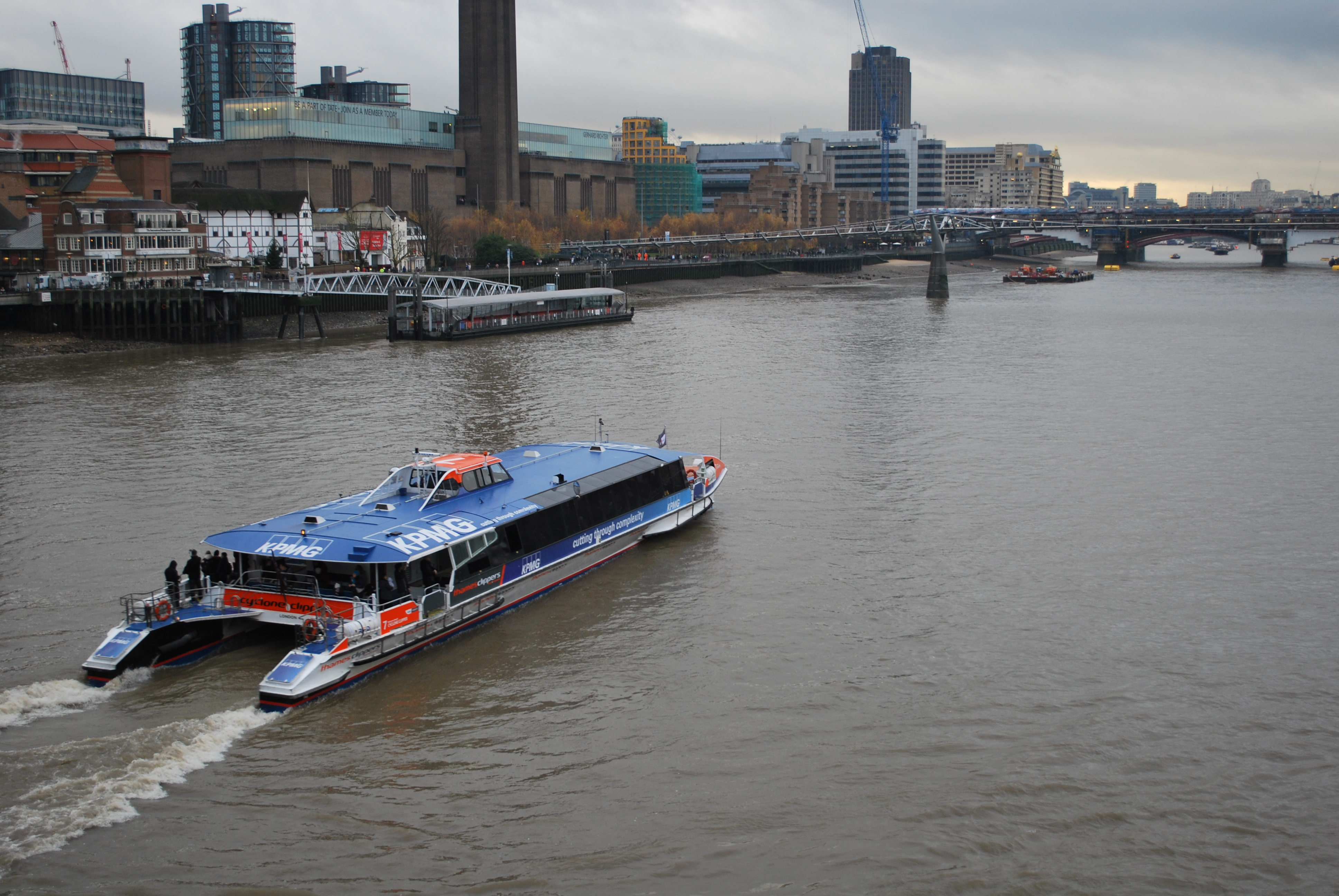 Cyclone Clipper on the Thames, near Bankside Pier. Information about Cyclone Clipper may be found at IMO 9451800. A ship can change name and flag state through time, but the IMO number remains the same through the hull's entire lifetime. As a result, it can be useful to identify a ship by using the IMO number.